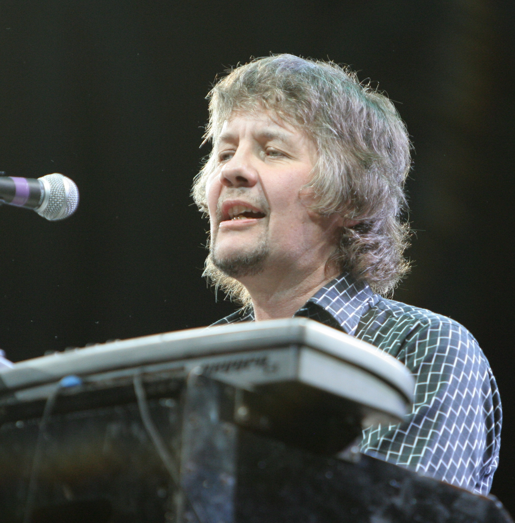 Don Airey live in concert with Deep Purple; Molson Amphitheatre, Toronto, Ontario, Canada.